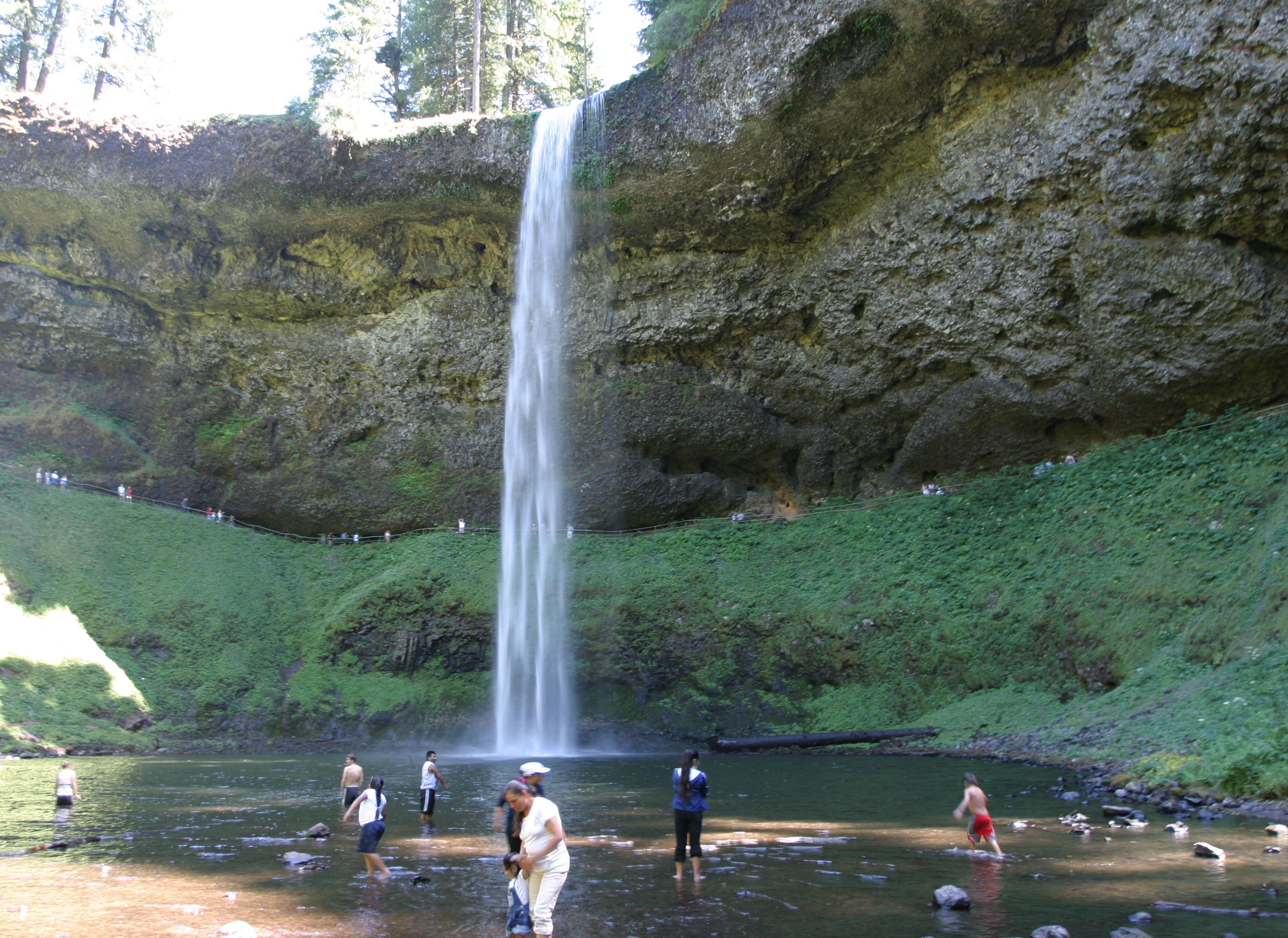 South Falls in Silver Falls State Park, Oregon